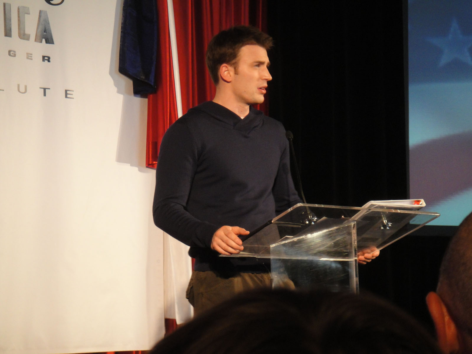 Chris Evans promoting Captain America: The First Avenger at San Diego Comic-Con International during the Military Salute.